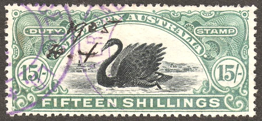 Western Australia 15 shillings Revenue stamp 1904